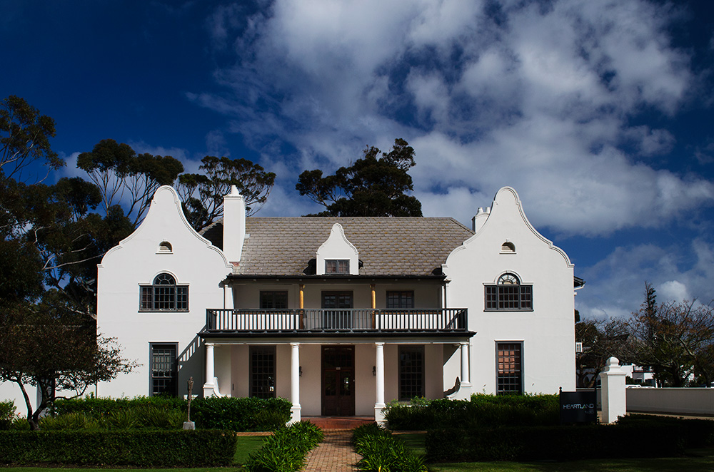 Established by De Beers Consolidated Mines at the turn of the 20th Century, the De Beers explosive works was established primarily to supply dynamite to the Diamond fields of Kimberly and to break the monopoly of the Modderdam Factory in Johannesburg. The site is notable for the unique collection of buildings designed by Baker and Masey and has been recognized by the Built Environment and Landscape Committee of Heritage Western Cape as being worthy of declaration as a provincial heritage site. Indeed one of the buildings on the site already has provincial heritage status: Quinan House, ref number 9/2/083/0037/001. This media shows a South African Protected Site with SAHRA file reference New.